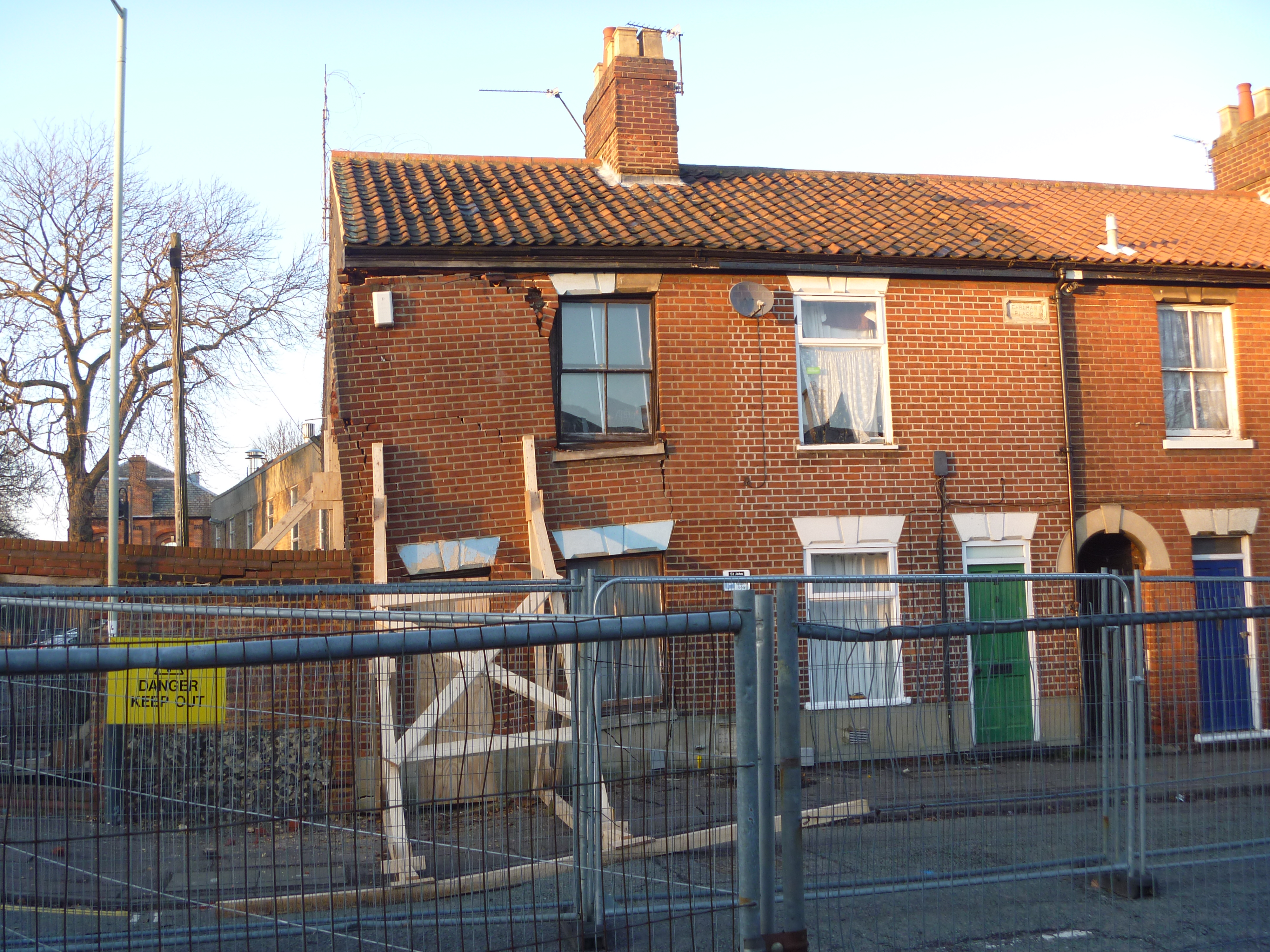 House collapsing into a hole in the ground